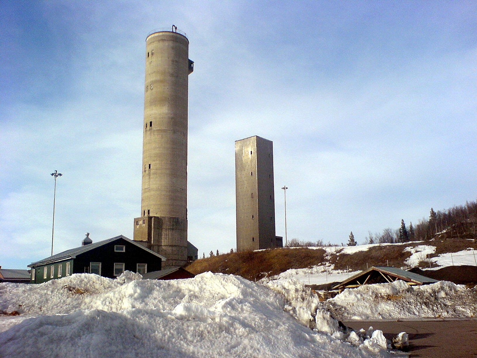 The old Tuolluvaara mine's towers.